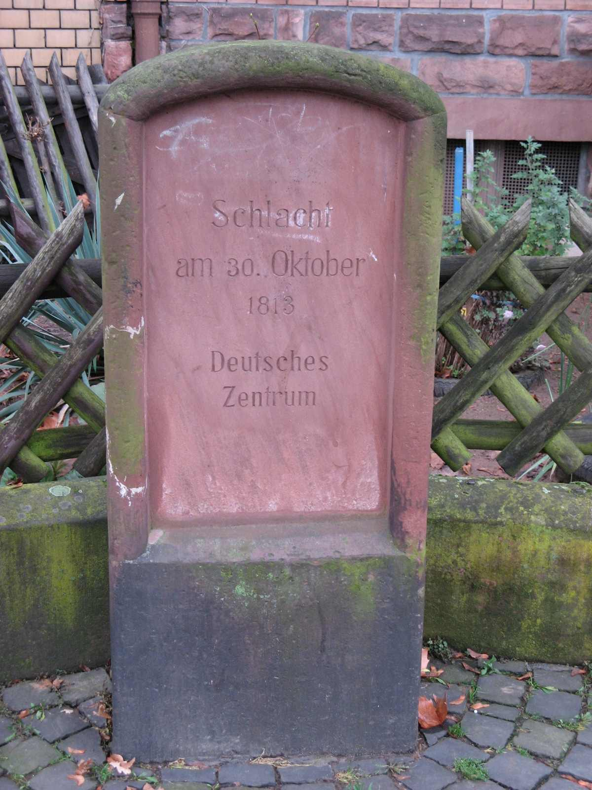 Memorial stone indicating the emplacement of the German troupes during the Battle of Hanau Date: 02-01-07, Taken by: user:Irishcent Place: Hanau, Karl-Marx-Straße The inscription translated into English reads: Battle at October, 30th 1813 German Centre